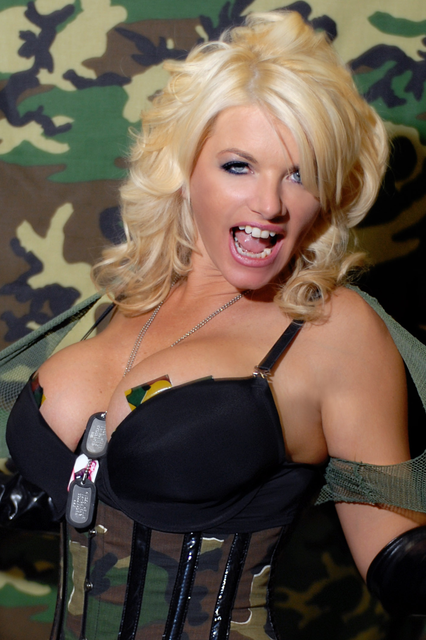 Vicky Vette attending the Adultcon Convention in Los Angeles, CA on Oct. 3, 2009 - Photo by Glenn Francis of